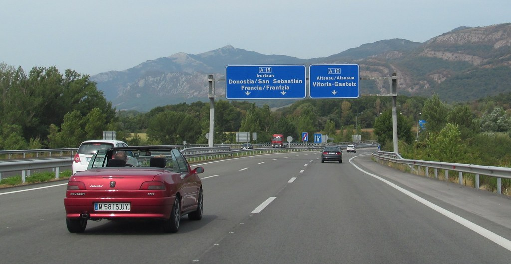 A-15 Irurtzun